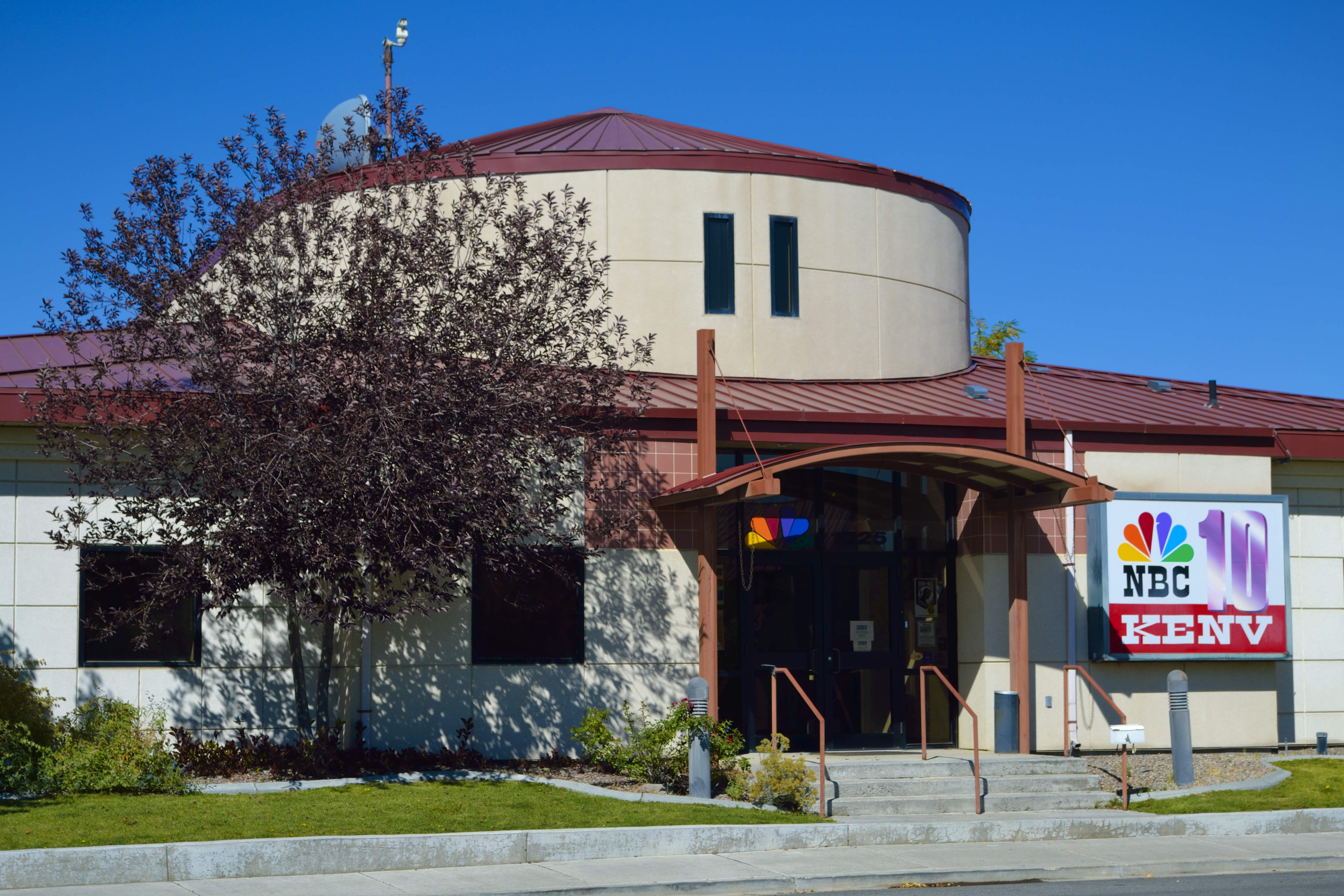 KENV (Elko, Nevada)